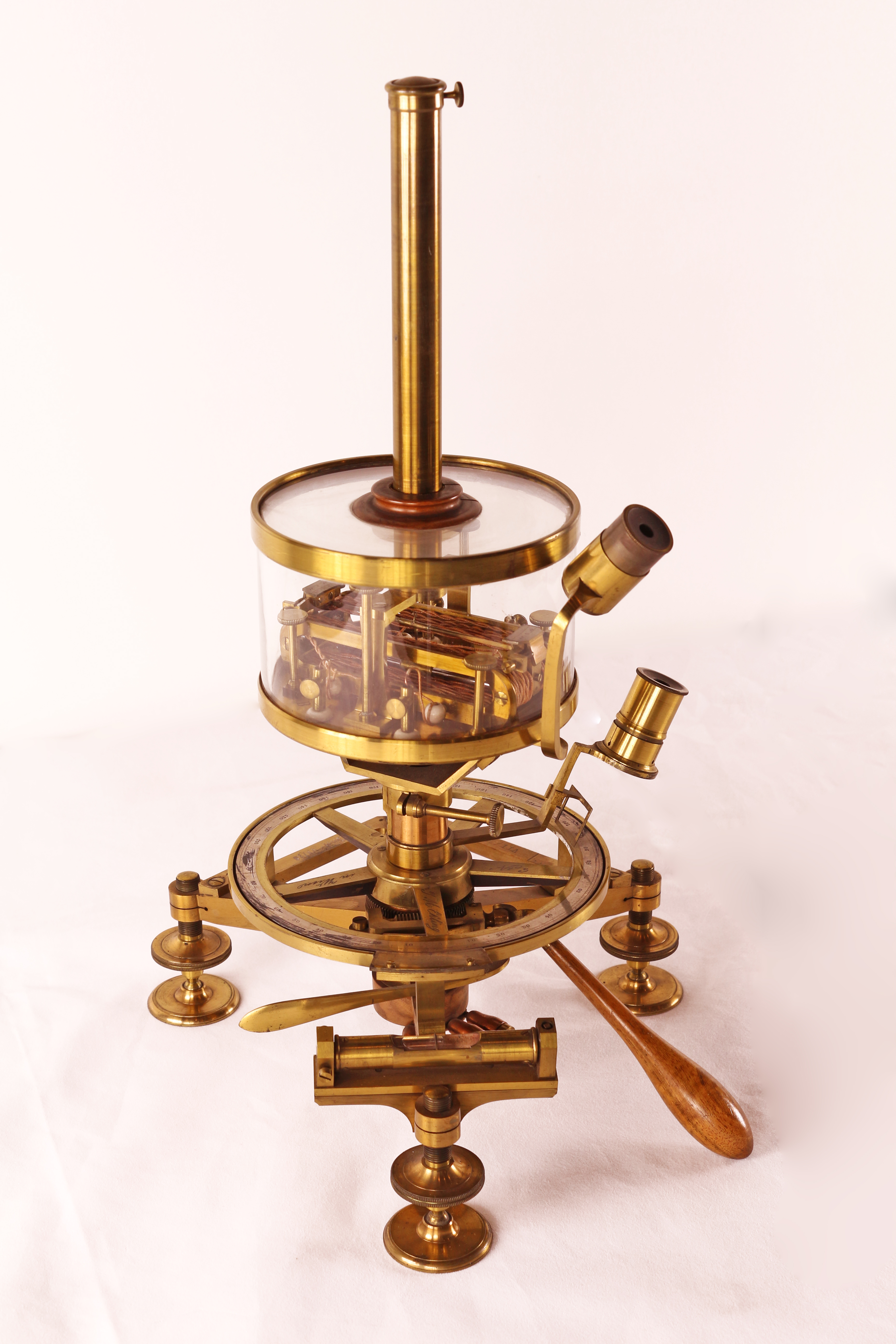 Nobili multiplicator from the Historical Collection of the Faculty of Physics, University of Vienna (1834)